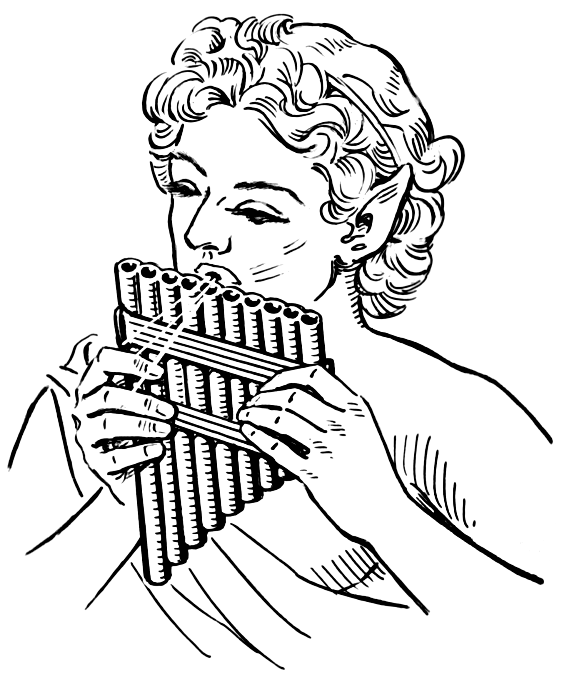 Line art drawing of panpipe.